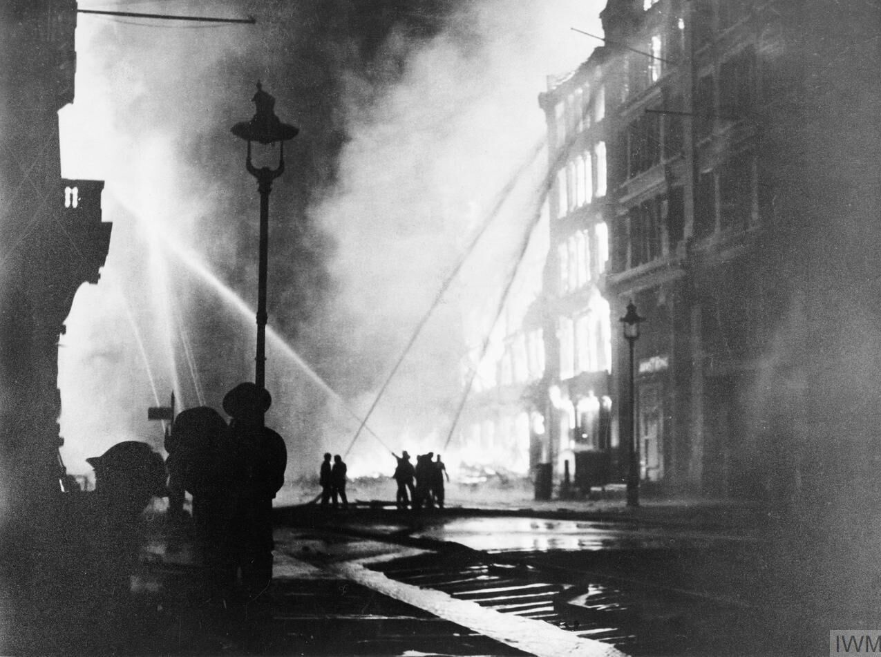 The Second World War 1939 - 1945- the Home Front Members of the London Fire Brigade train their hoses on burning buildings in Queen Victoria Street, EC4, after the last and heaviest major raid mounted on the capital during the 'Blitz'. For six hours on the night of 10-11 May 1941, aircraft of the Luftwaffe dropped over 1,000 tons of bombs on London, claiming 1,486 lives, destroying 11,000 houses and damaging some of the most important historical buildings, including the Houses of Parliament, the British Museum and St James Palace. The low tide and more than 40 fractured mains deprived the firefighters of water and many of the 2,000 fires blazed out of control.